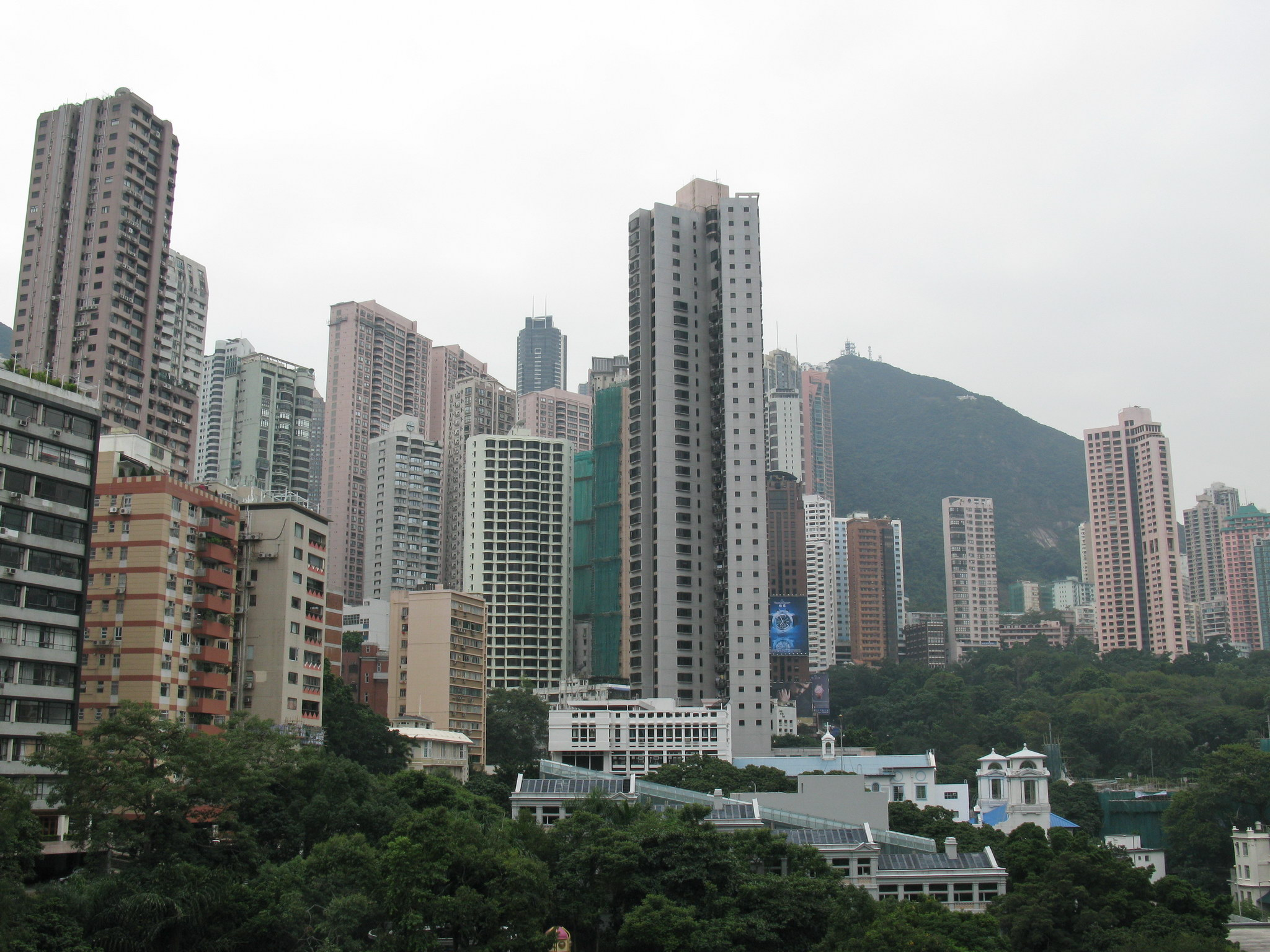 中半山住宅群 Apartment Blocks in Mid-levels